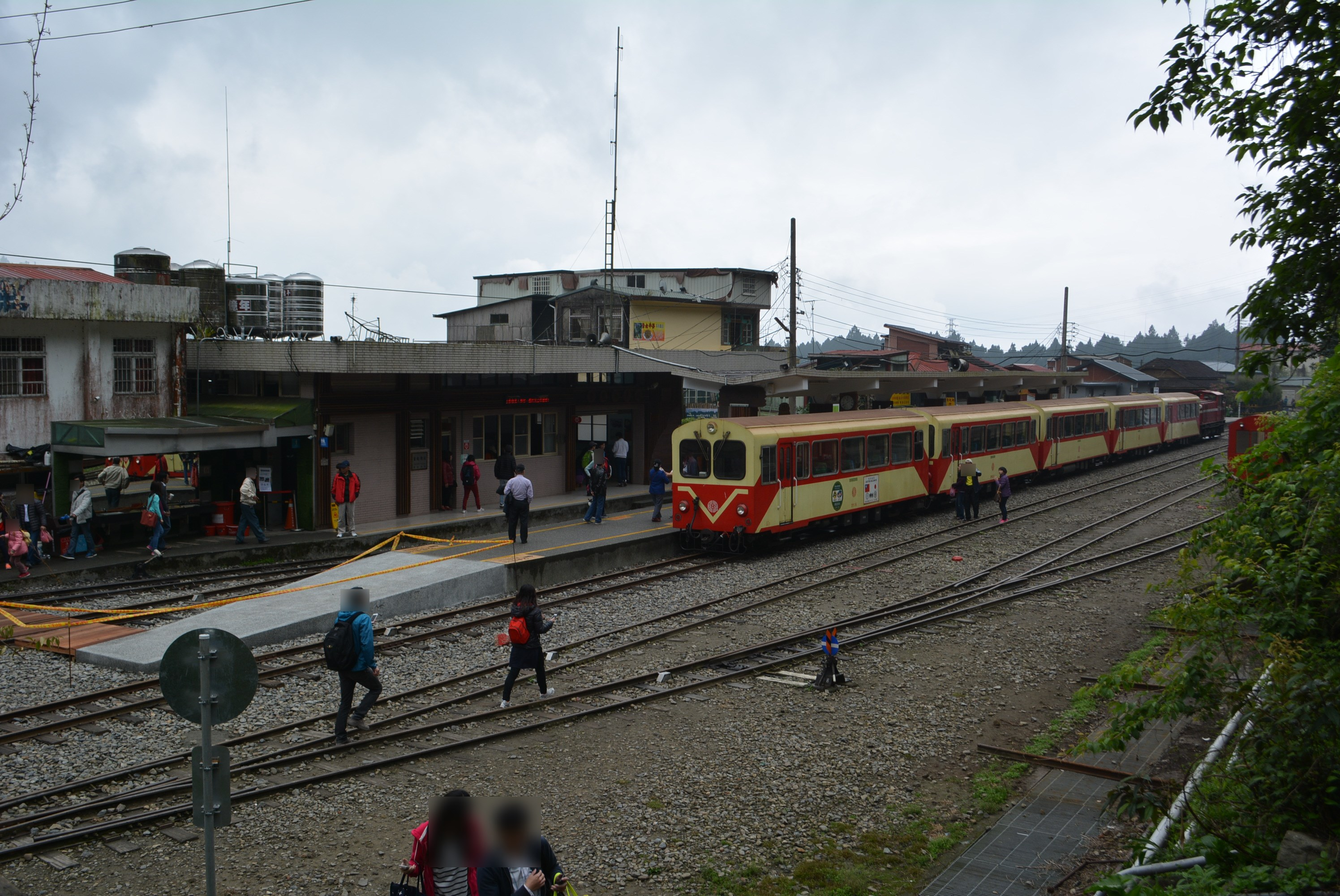 Fenqihu Station,Chiayi district,Taiwan